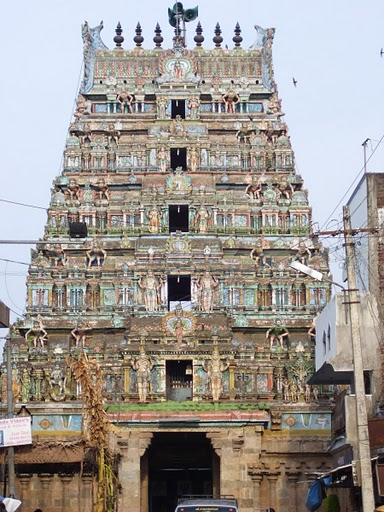 Upplillyappan Kovil